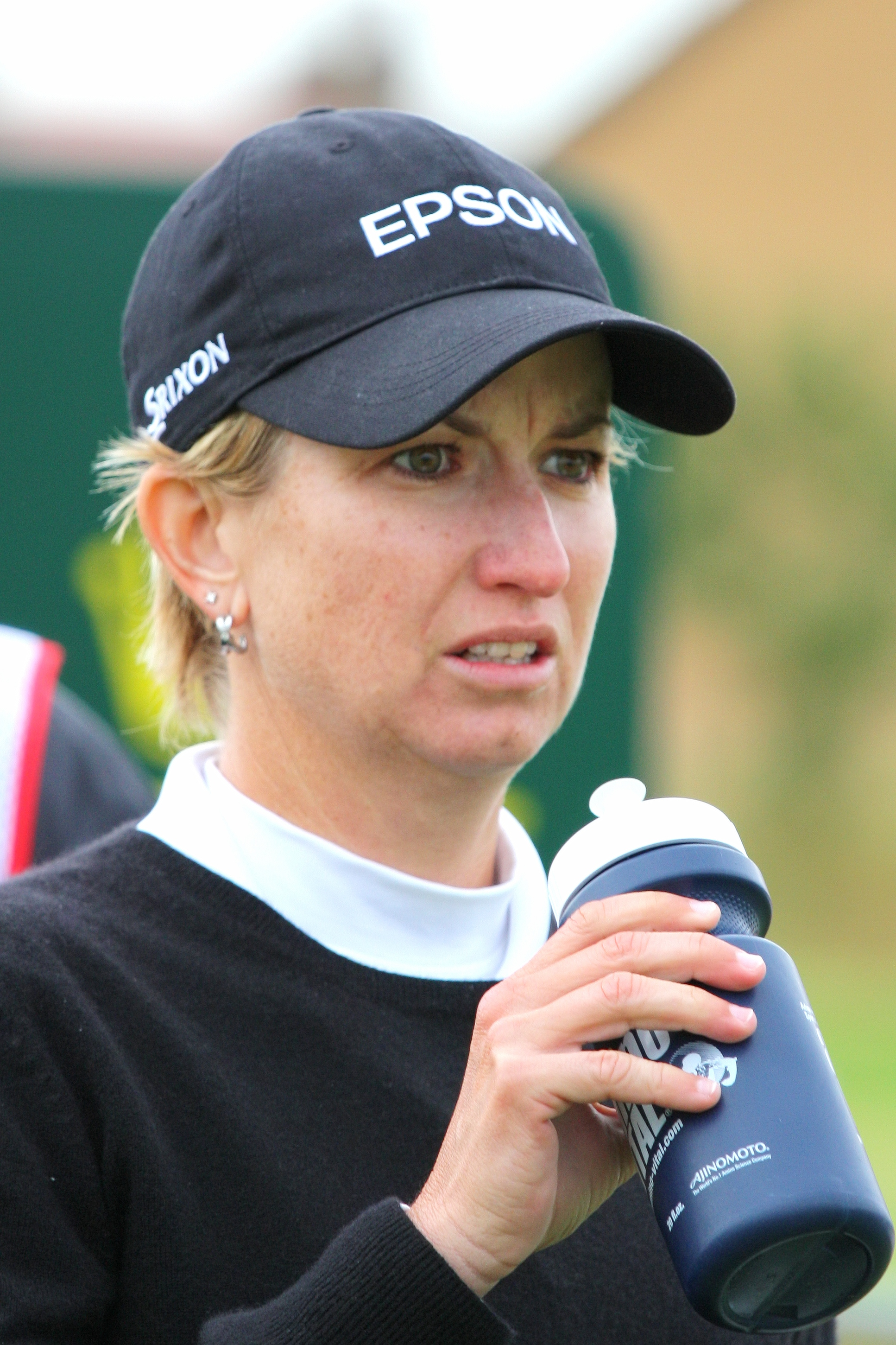 LYTHAM ST ANNES, UNITED KINGDOM - JULY 28: Karrie Webb of Australia on the 18th tee during pro-am before 2009 Ricoh Women's British Open held at Royal Lytham & St Annes on July 28, 2009 in Lytham St Annes, England. (Photo by Wojciech Migda)